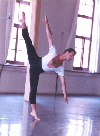 António Laginha showing his art